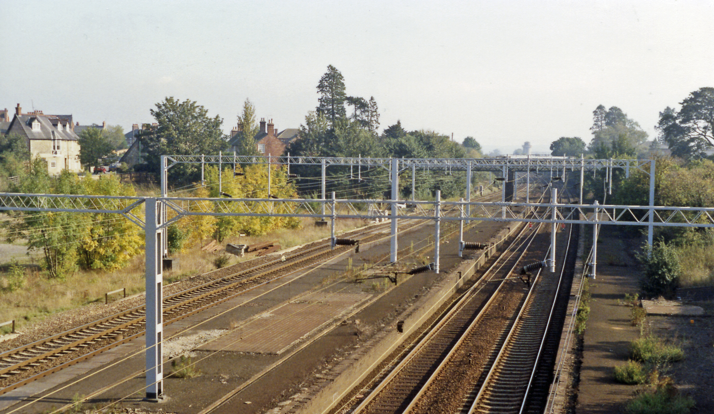 Site of Castlethorpe station, West Coast Main Line, 1991. View SE, towards Bletchley and London: ex-LNWR WCML. Hardly a trace of the station, which was closed from 7/9/64, prior to the electrification in 1966.